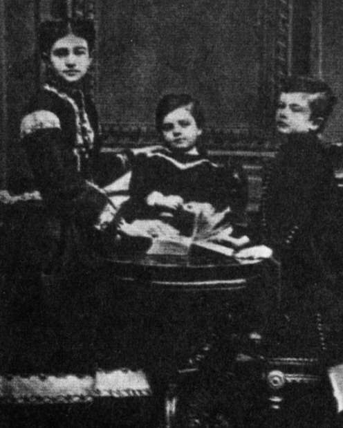 (From left:) Lucia, Ion and Vasile, the children of Romanian politician Mihail Kogălniceanu